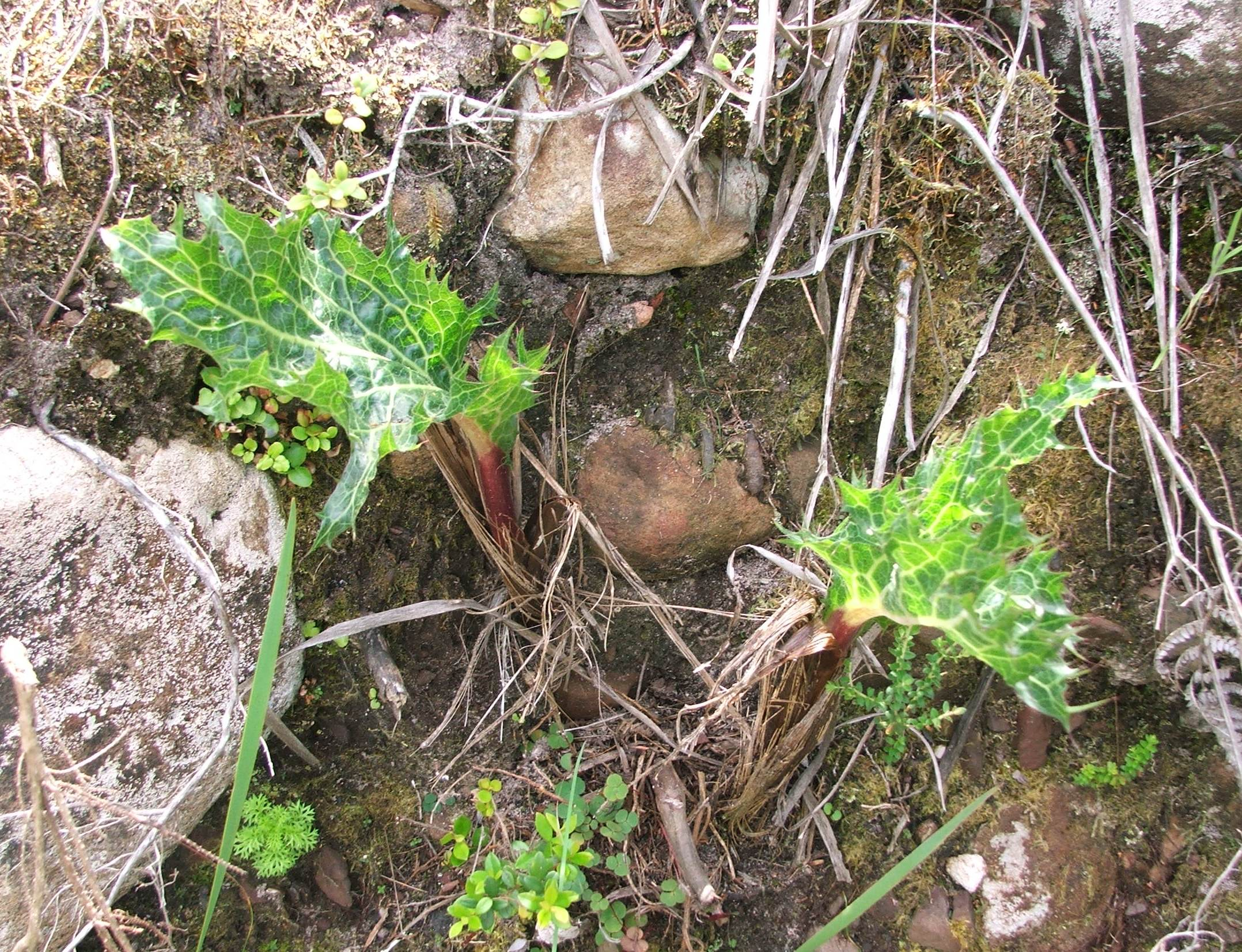 Lichtensteinia lacera plant. Cape Town. South Africa.